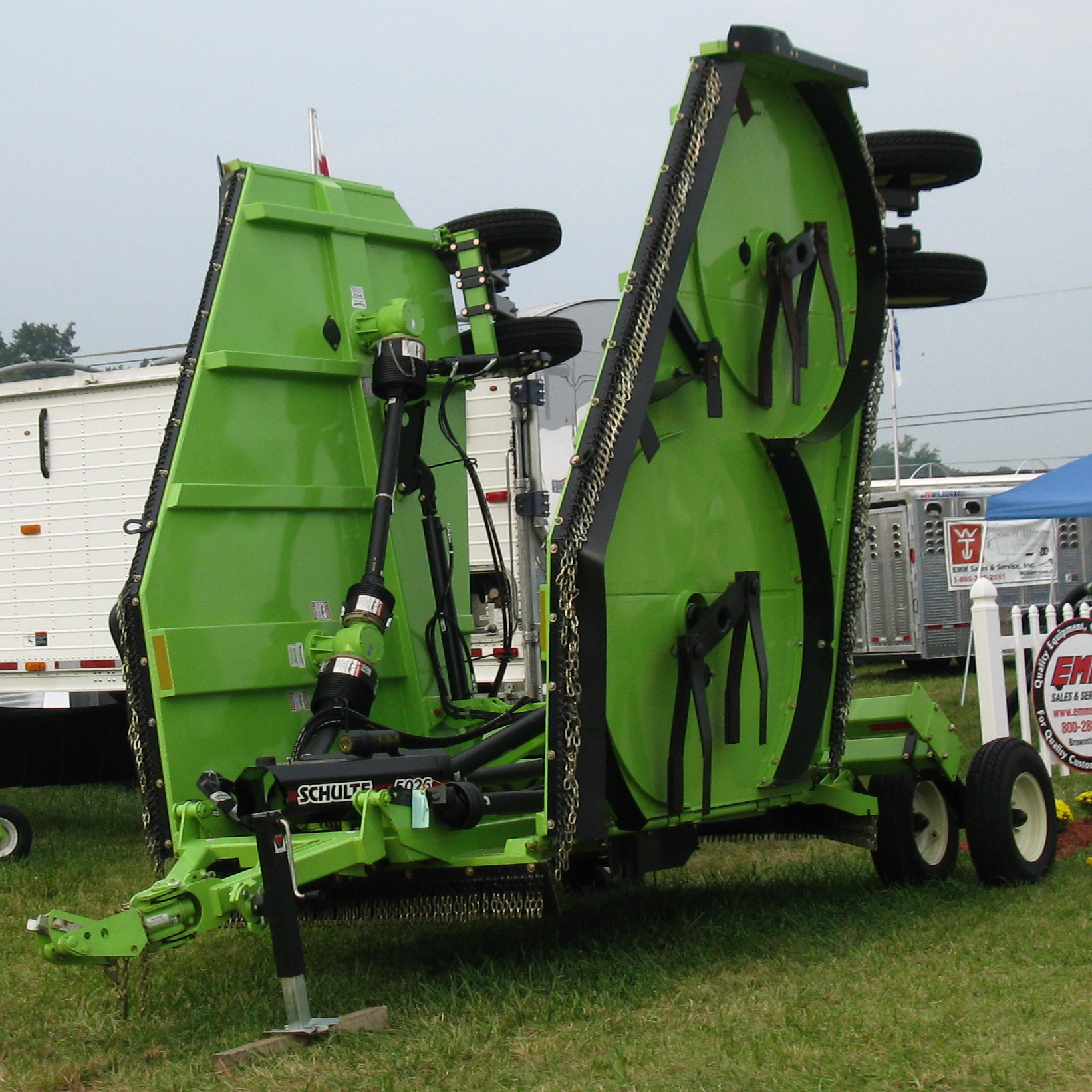 A Schulte rotary cutter 5026 at Ag Progress Days (APD) 2009 in Pennsylvania, USA. This rotary mower has a cutting width of nearly 8 meters. Schulte Industries is a Canadian machine manufacturer.